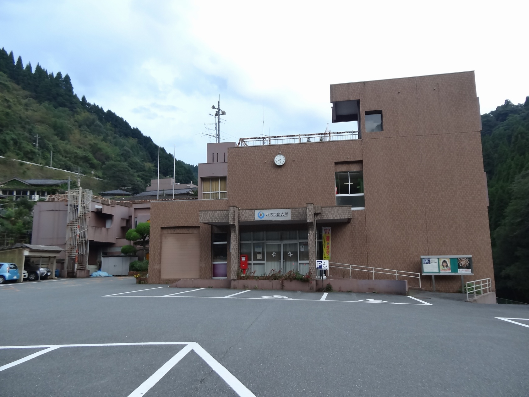 Yatsushiro City Izumi Branch Office (Former Izumi Village Office - Kumamoto Prefecture, Japan)